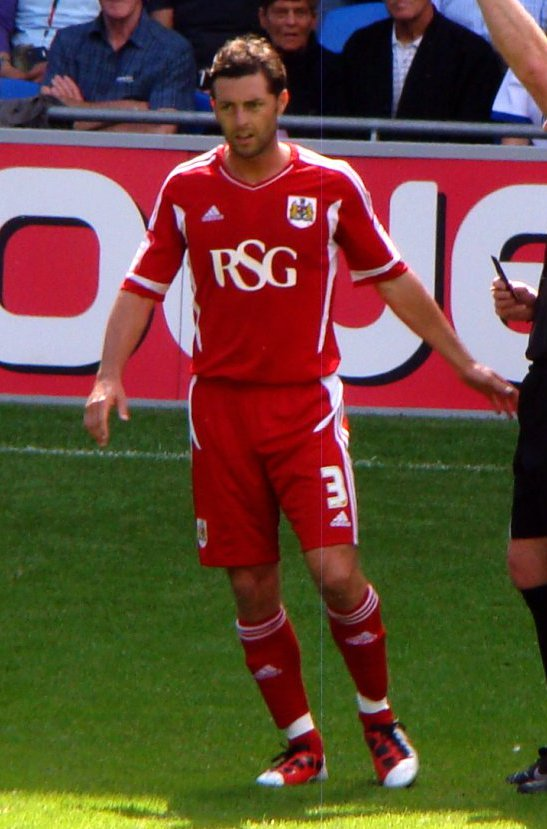 14/08/11 Cardiff V Bristol City, Championship, Cardiff City Stadium, Cardiff, Wales